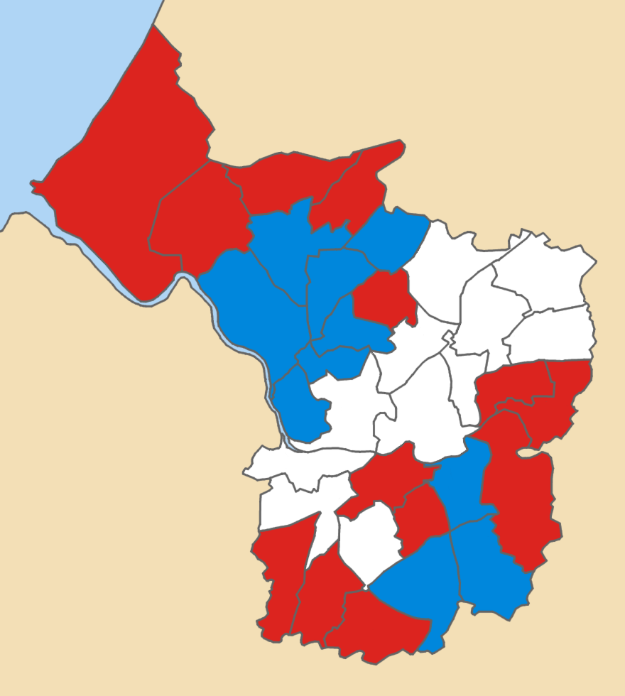 Results of the 1988 local elections in Bristol Colours: Conservative Labour No election in 1988